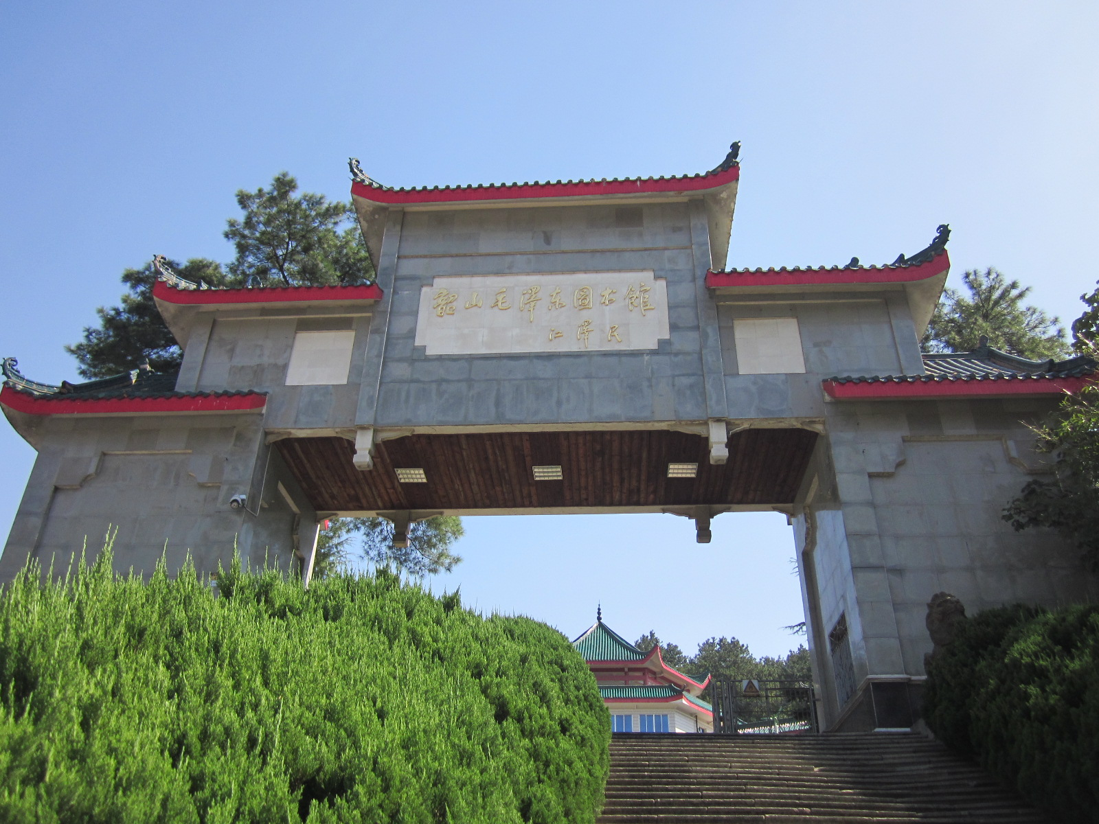 Mao Zedong Public Library